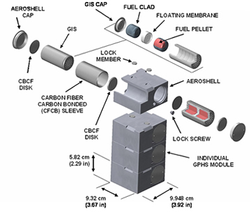 The Parts of an “General Purpose Heat Source (GPHS)”. Some measurements are added.